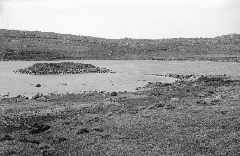 Photograph of Dùn Anlaimh, on the Inner Hebridean island of Coll.